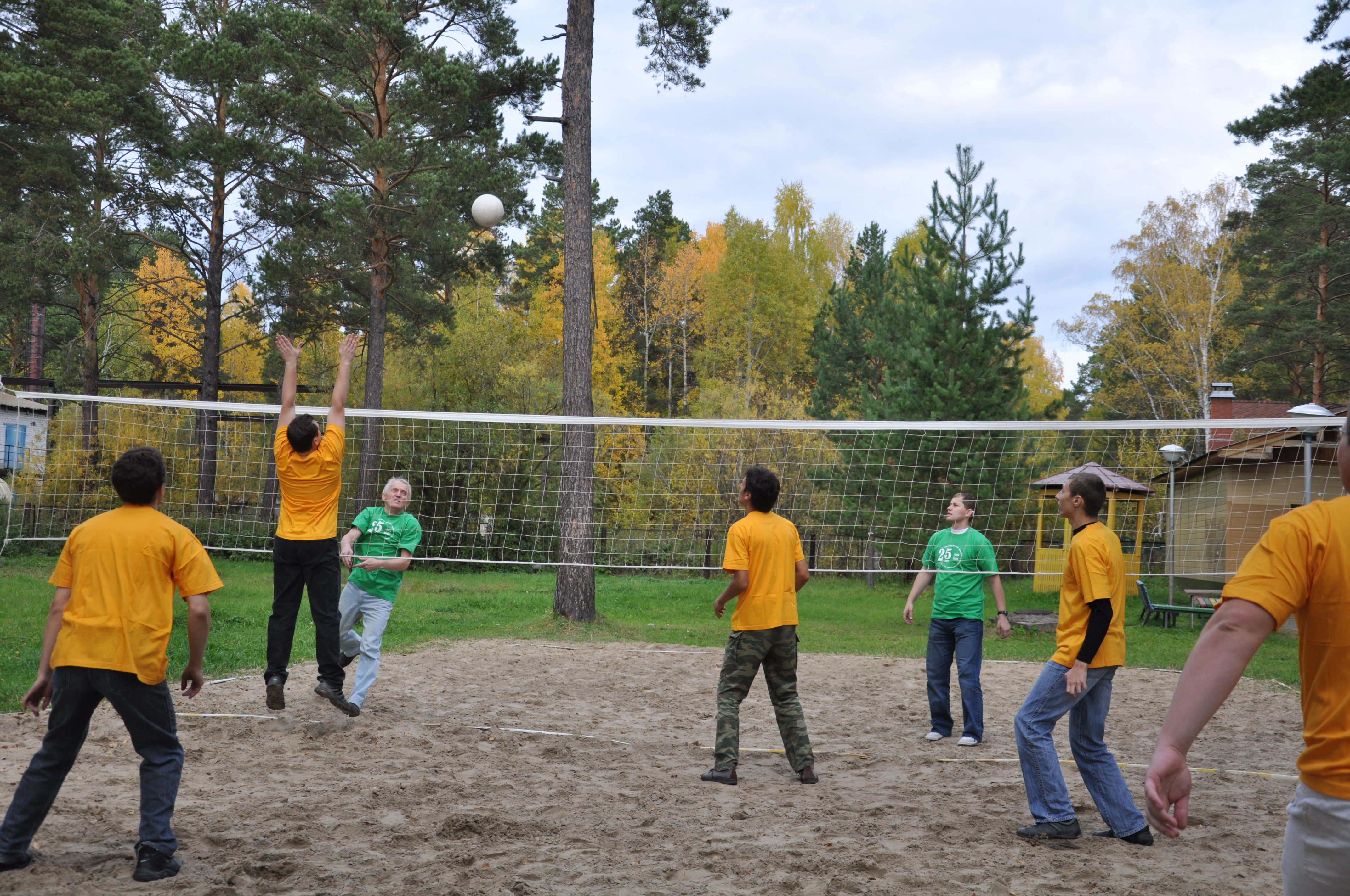 volebool in ISPMS